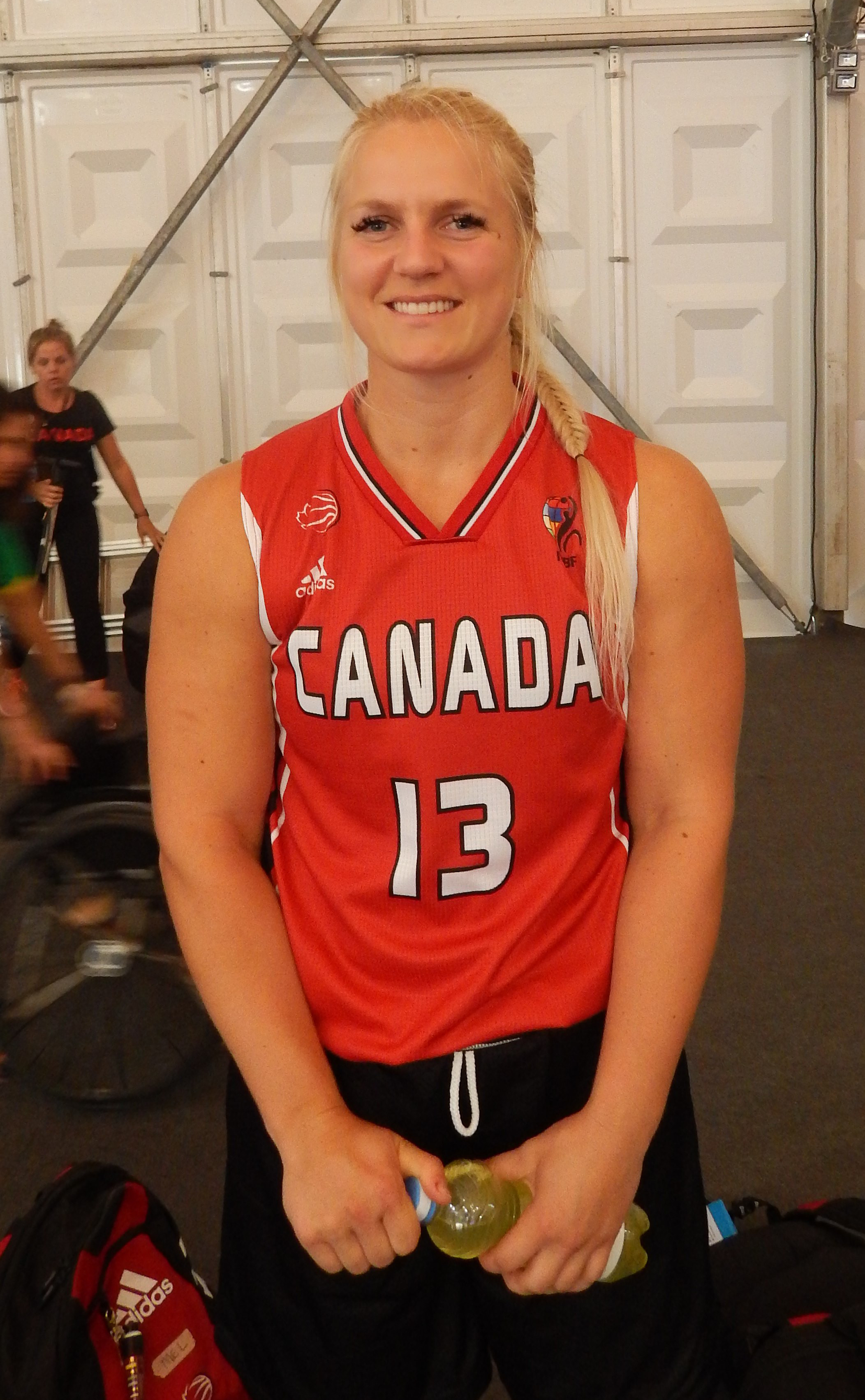 Canada No. 13 - Kady Dandeneau at the 2018 World Wheelchair Basketball Championships in Hamburg, Germany